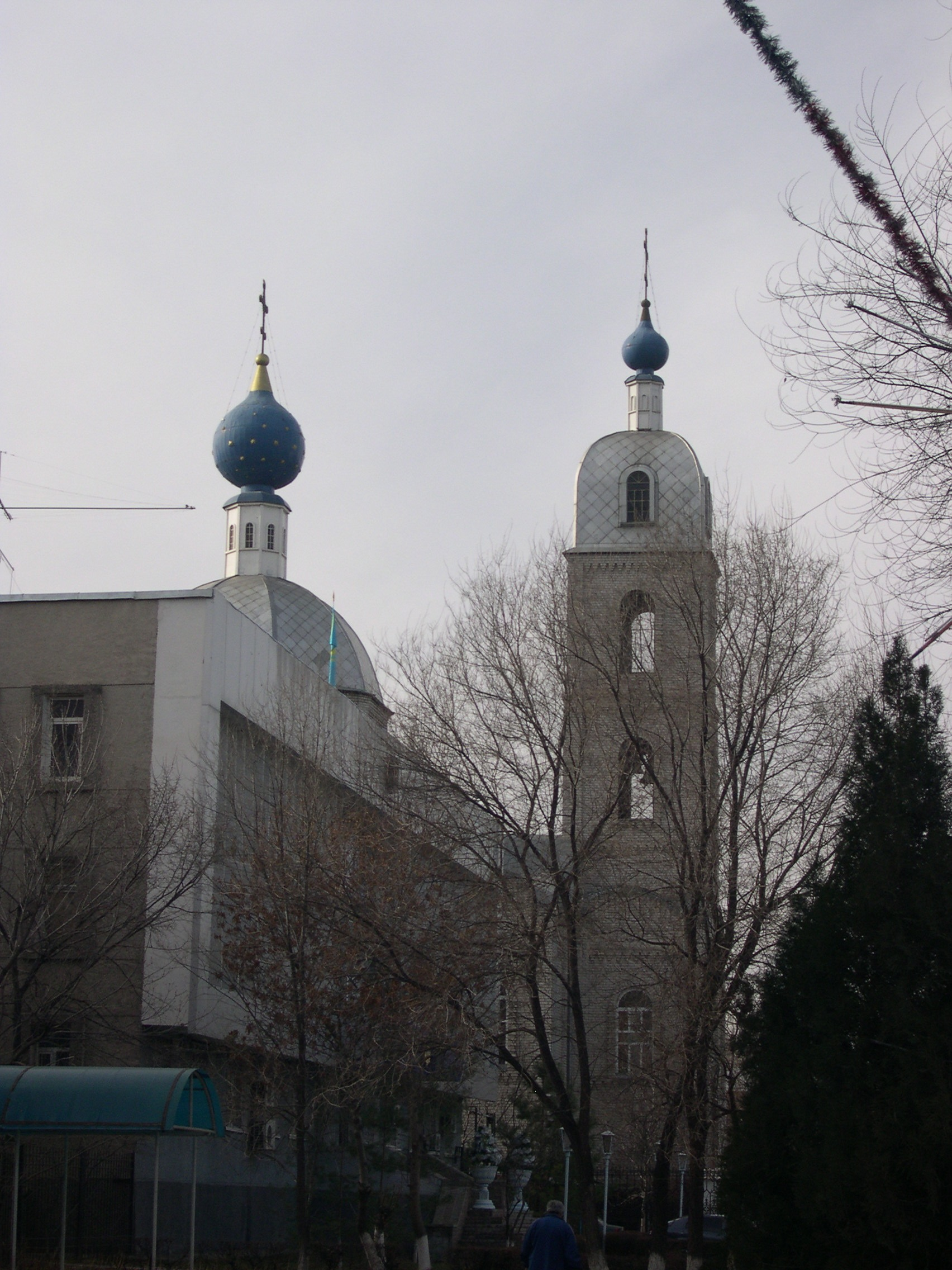 The main Russian Orthodox church for Taraz on Tole Bi Street.